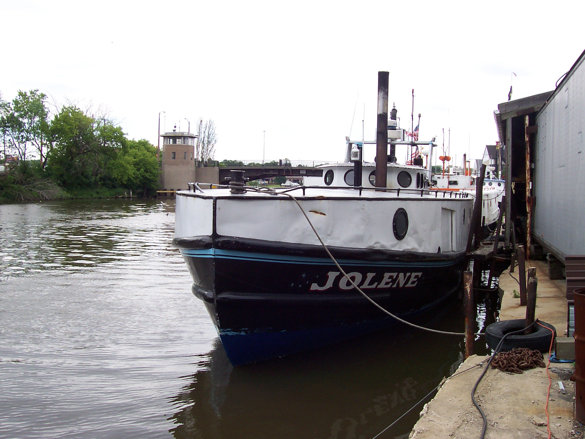 A view of the Kinnickinnic River commercial fishing fleet. This image faces west, with the 1st Street bridge in the background.